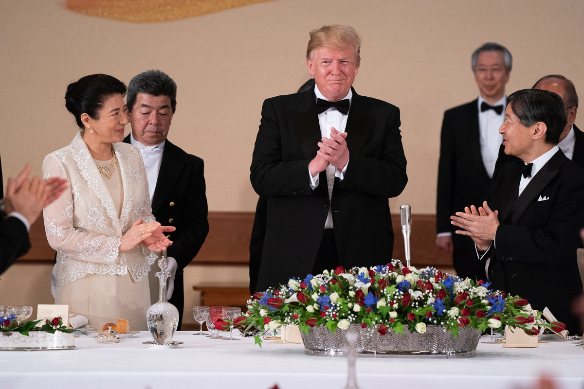 President Donald J. Trump is applauded by Emperor Naruhito of Japan after addressing his remarks during the state banquet at the Imperial Palace Monday, May 27, 2019, in Tokyo. (Official White House Photo by Shealah Craighead)